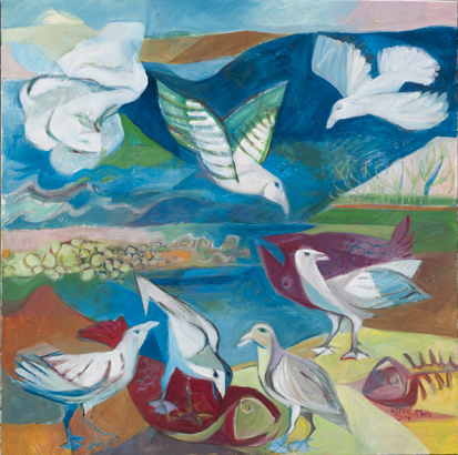 Painting by Georg Königstein